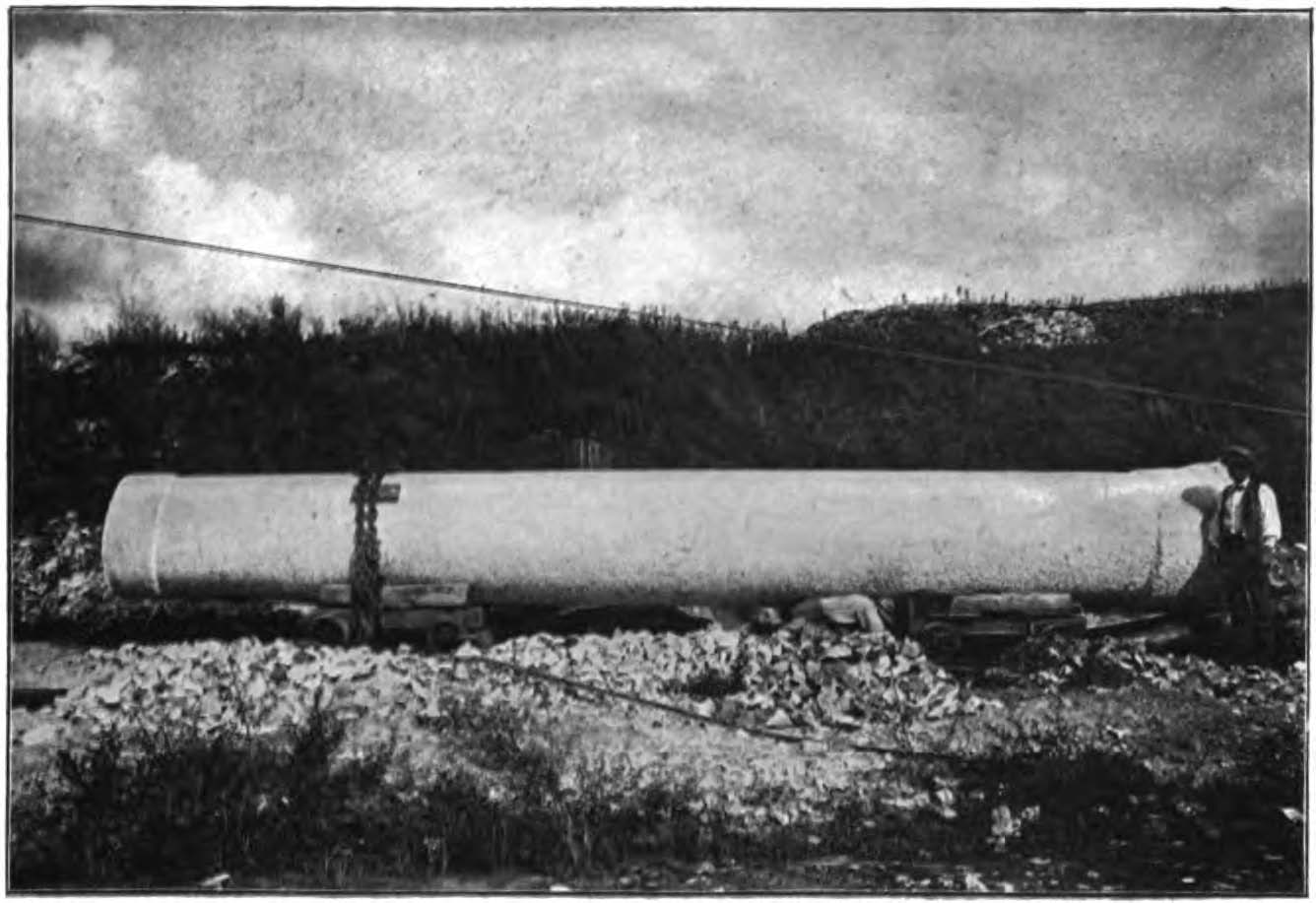 Plate XXII, Figure 1 of 1898 publication called Maryland Geological Survey Volume Two. Caption:Thirty-Eight Ton Monolith, Cockeysville